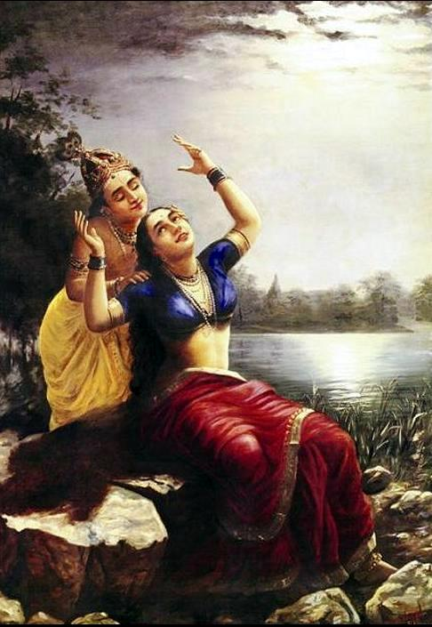 Lord Madhav with his love - Radha